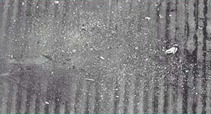 Photo of American Eagle Flight 4184 crash site - NTSB Docket Photo